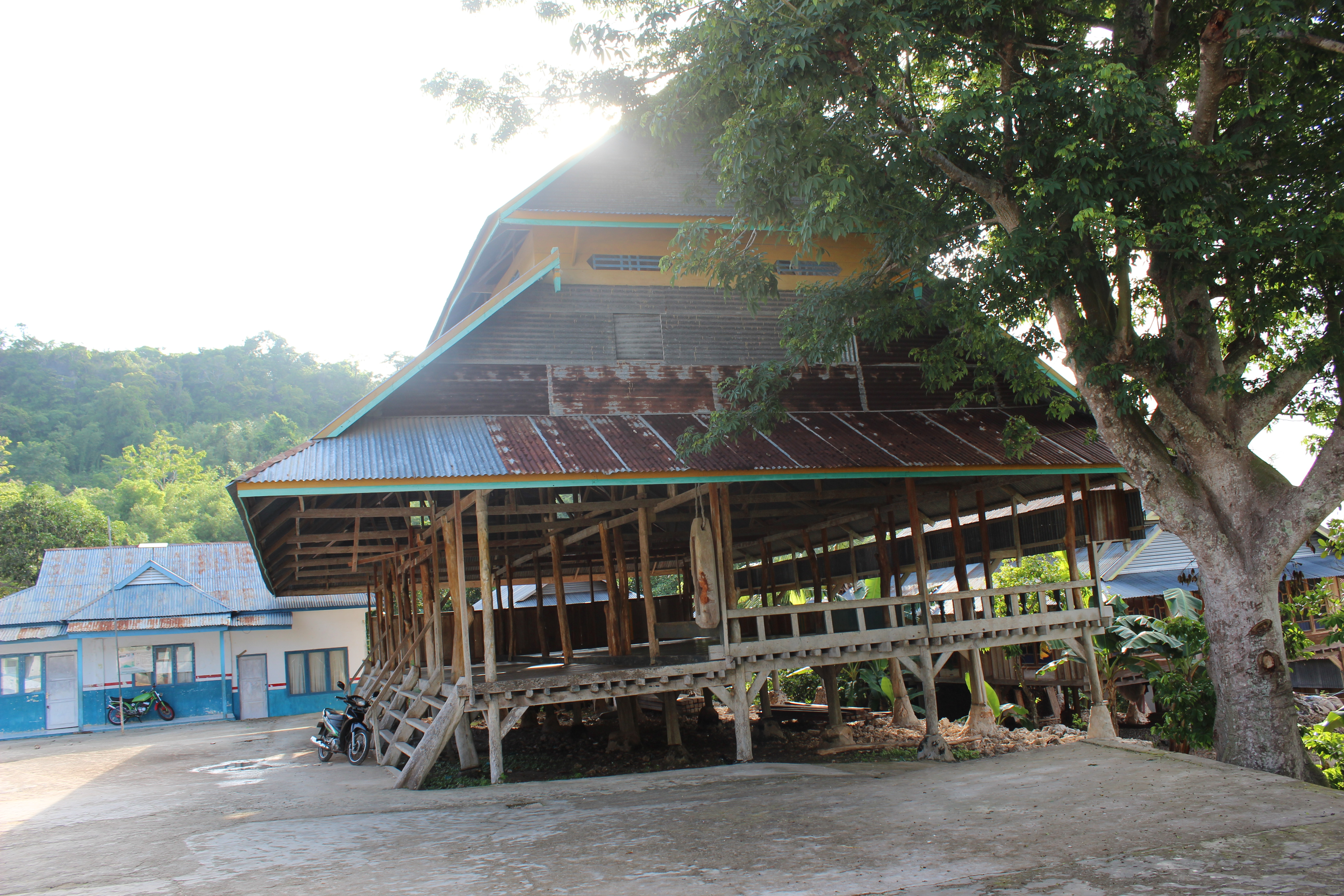 RUMA ADAT SIOMPU